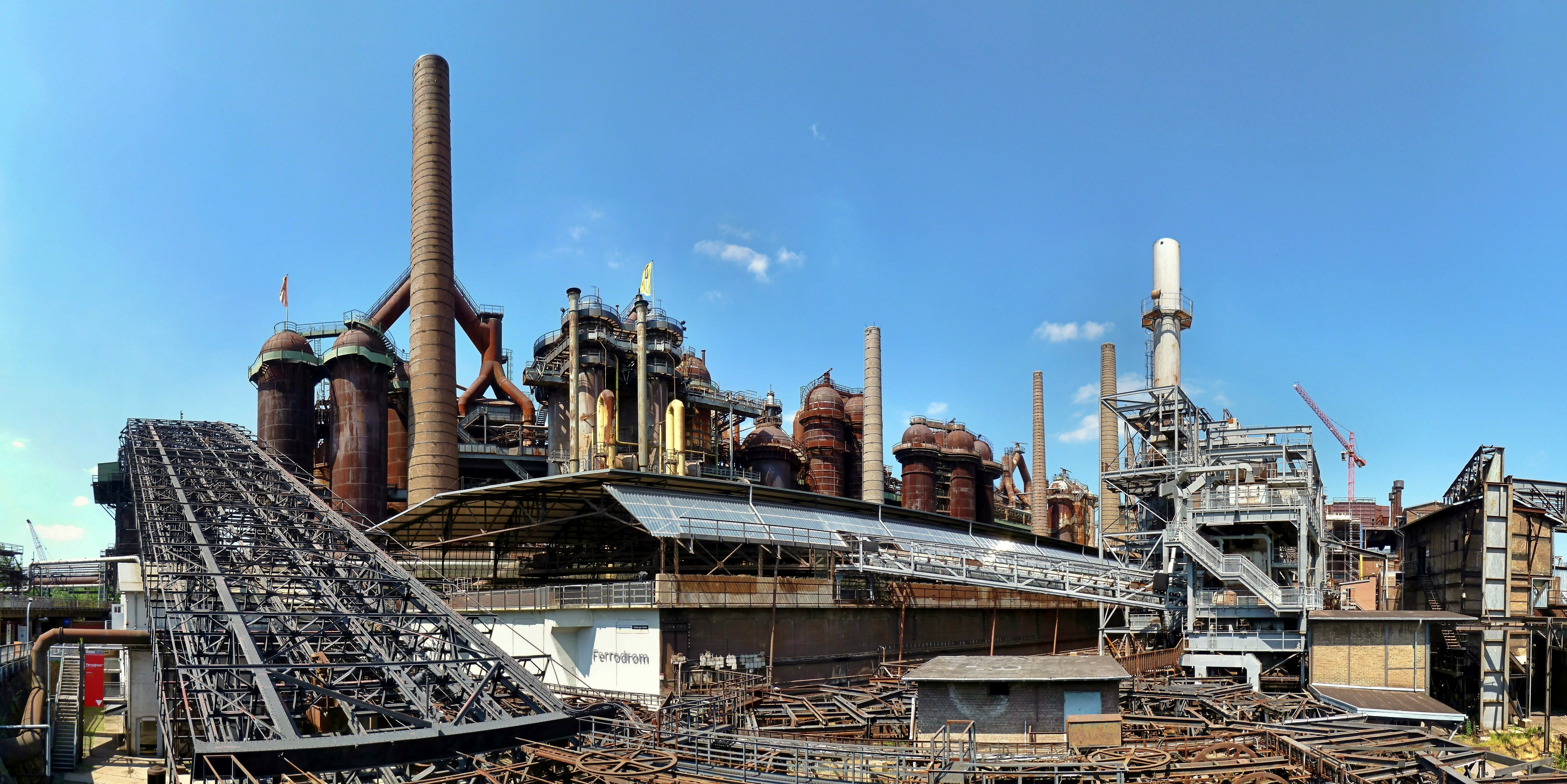 The Völklingen Ironworks (German: Völklinger Hütte) is located in the German town of Völklingen, Saarland. In 1994, it was declared by UNESCO a World Heritage site. The former ironwork was founded in 1873 and decommissioned in 1986. In 1994 it was declared a World Heritage site by the UNESCO and is regarded the most important location of the industrial culture in Europe today (2010).